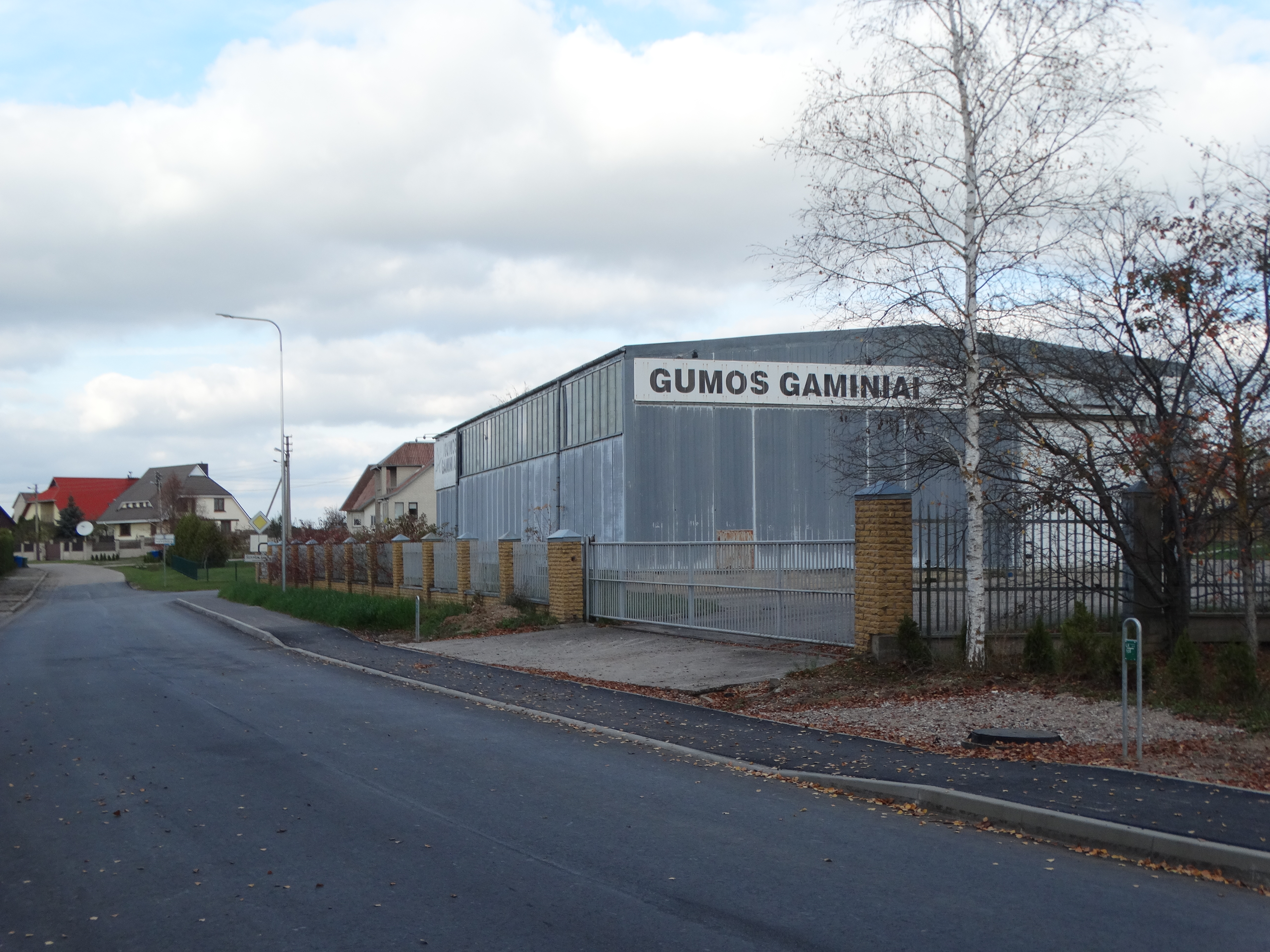 Miklusėnai, enterprise, Alytus district, Lithuania